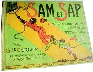 Category:Children's book covers from France pubished in 1908 and illsutrated by Rose Candide